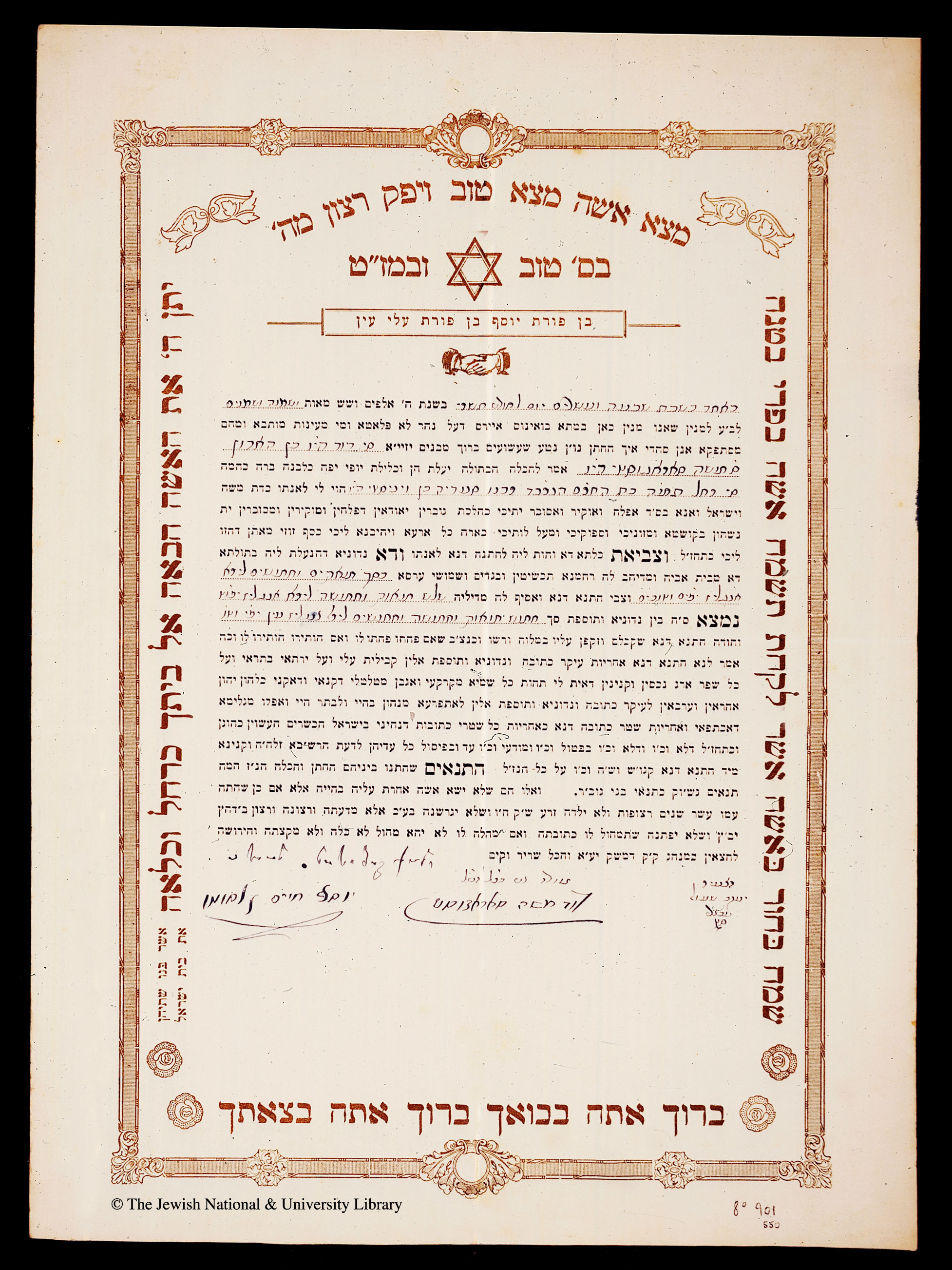 Ketubah from The Ketubbot Collection of the National Library of Israel